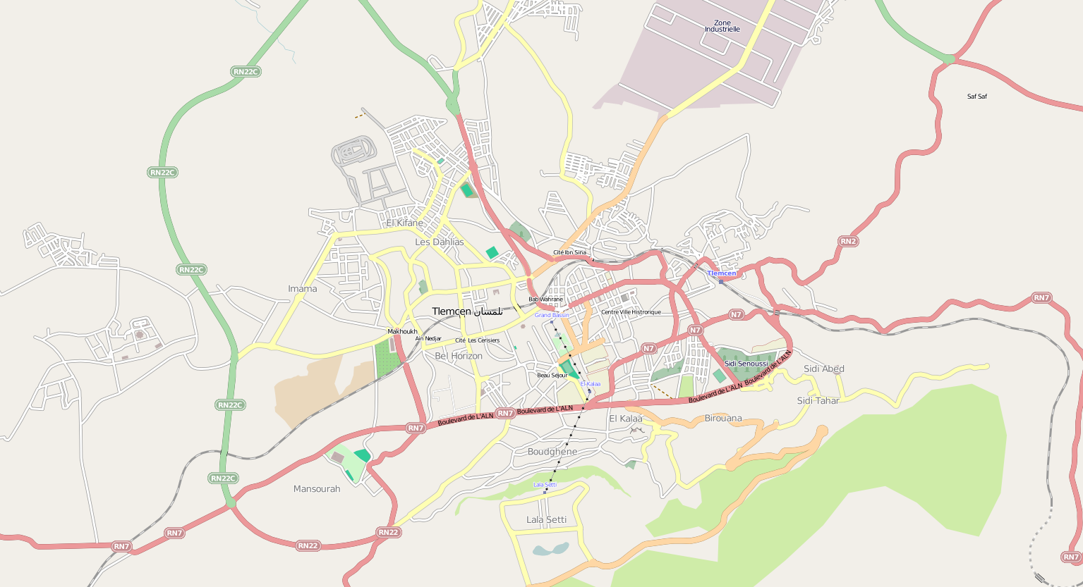 Map of Tlemcen, Algeria Geographic limits of the map: N: 34.9077° S: 34.8604° W:-1.3718° E:-1.2656°